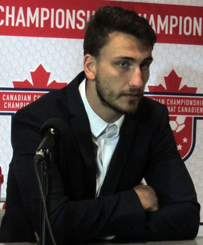 Luca Gasparotto with York 9 FC at May 22, 2019 Canadian Chamionship post game press conference.